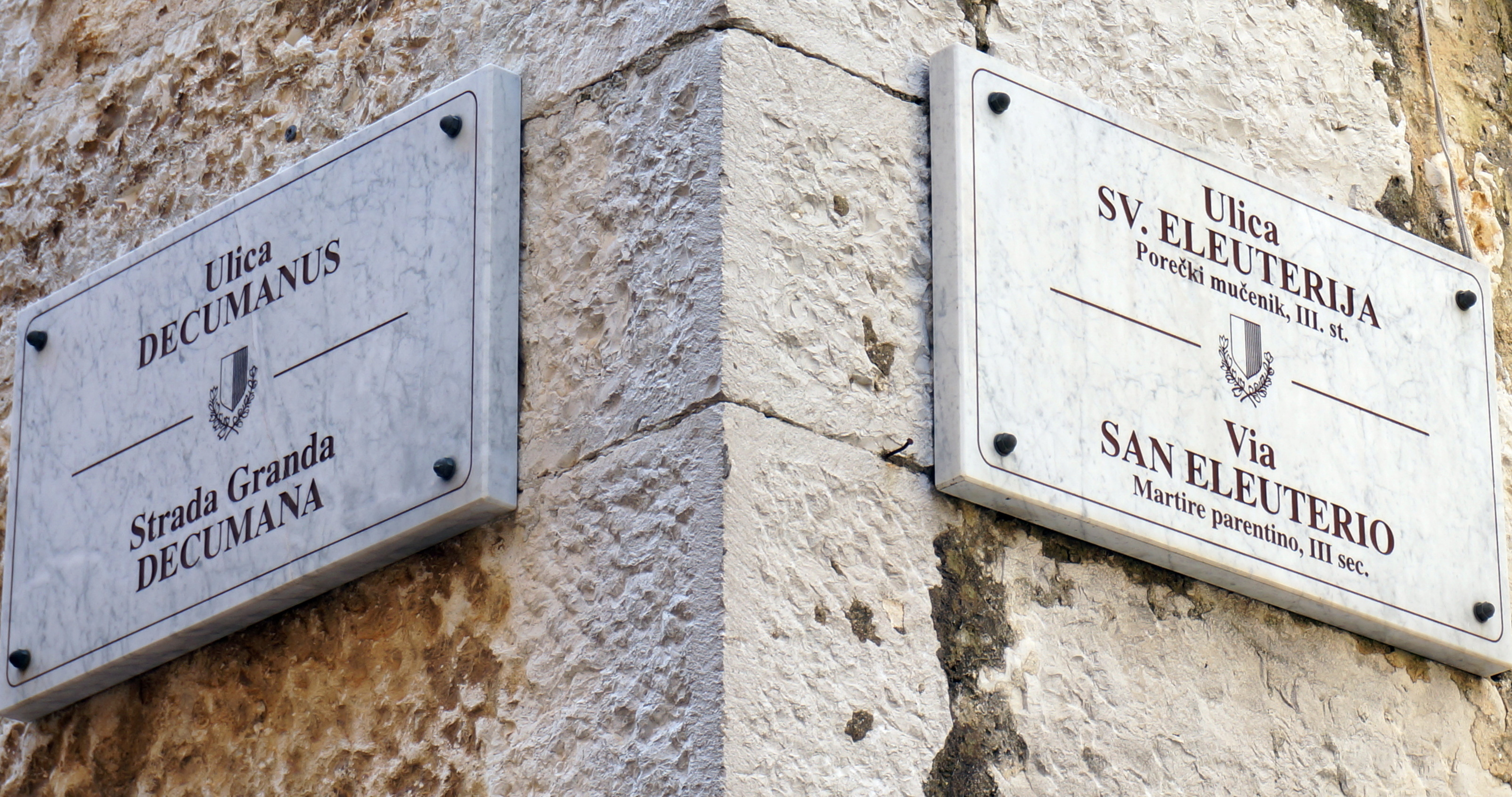 Street named after Roman name